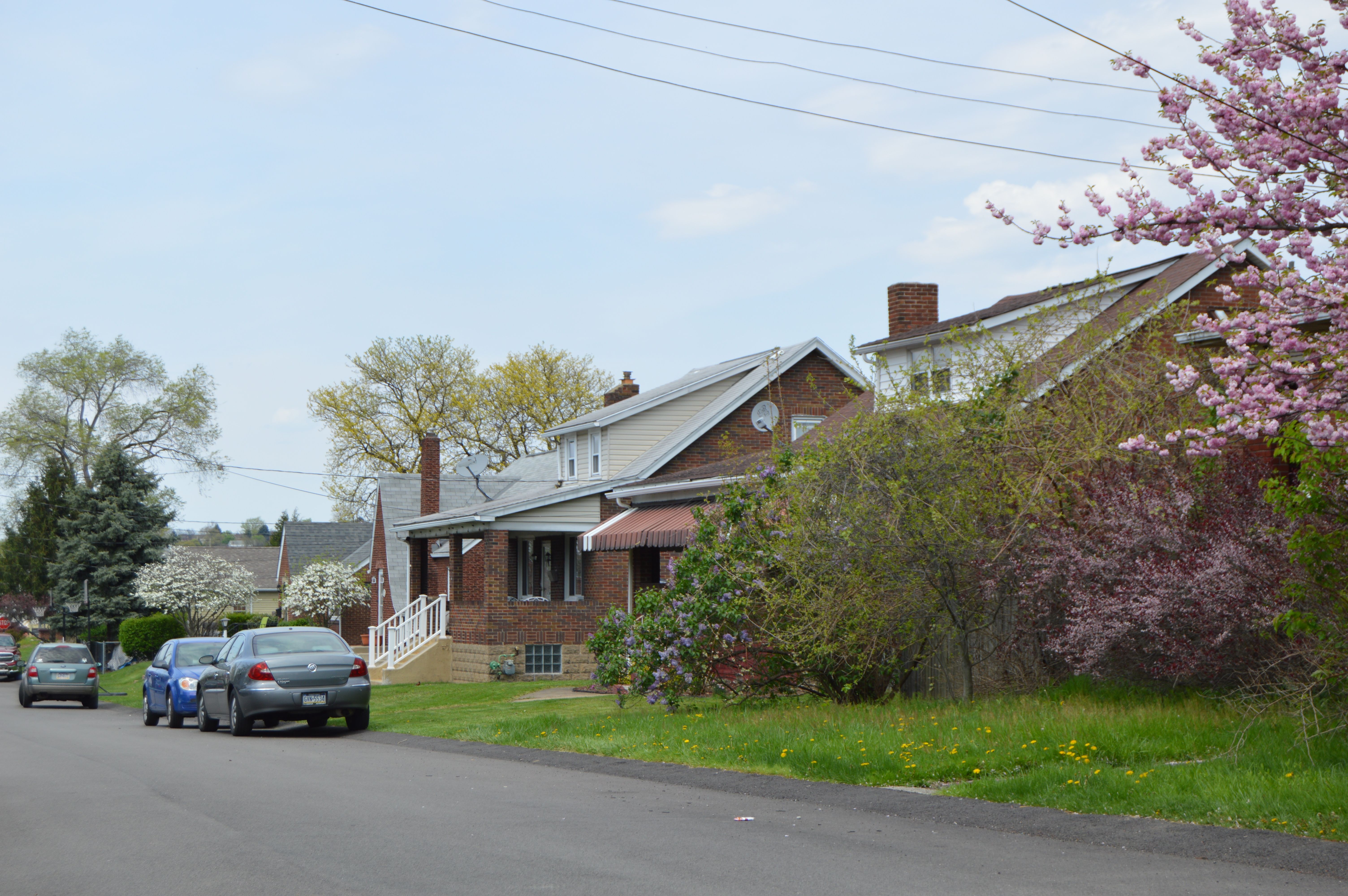 Houses on the eastern side of "E" Street, seen from the Southern Avenue intersection, in Liberty, Pennsylvania, United States.